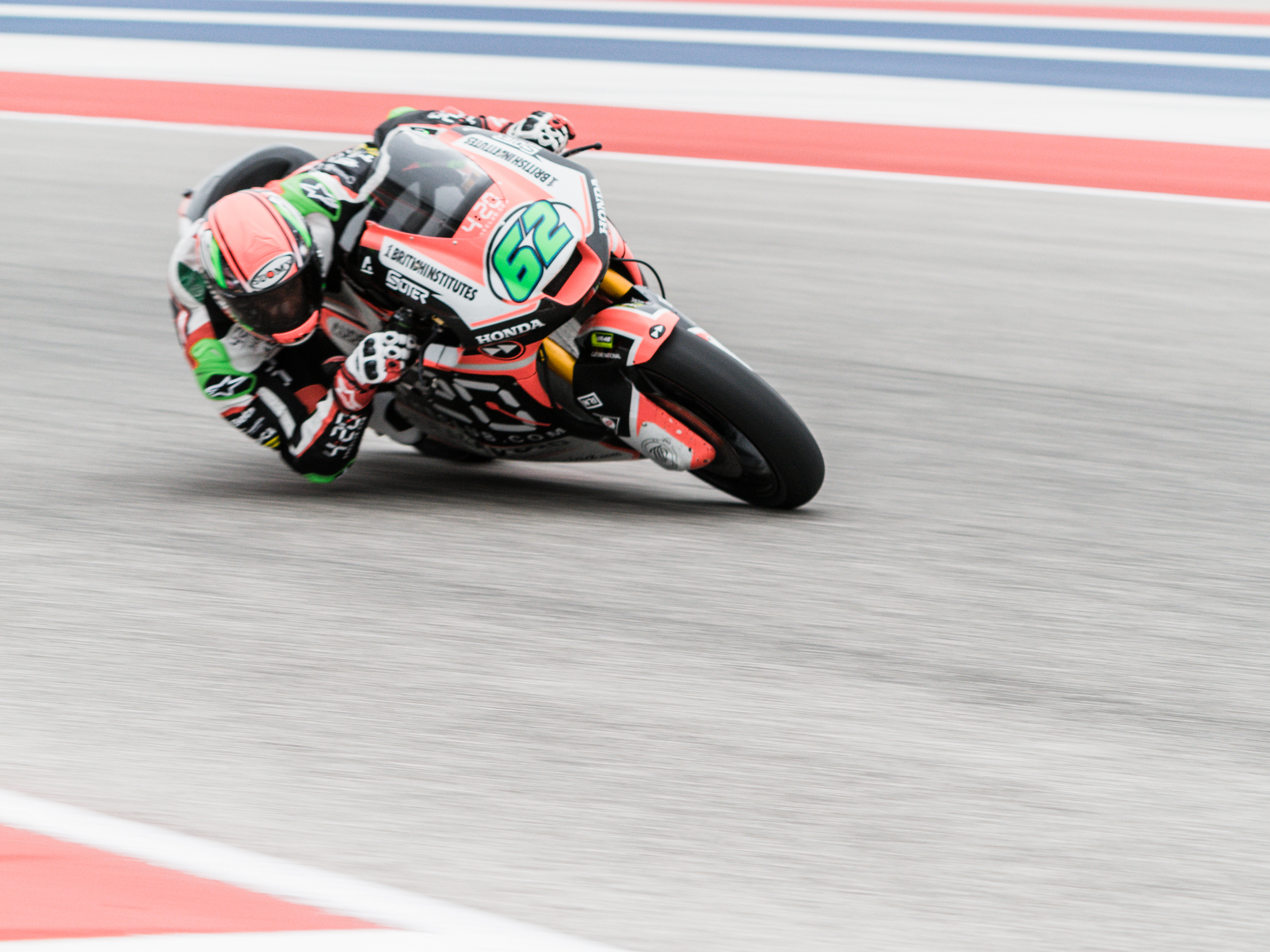 2018 Motorcycle Grand Prix of the Americas – Moto2 – #62 Stefano Manzi – Suter – Forward Racing Team